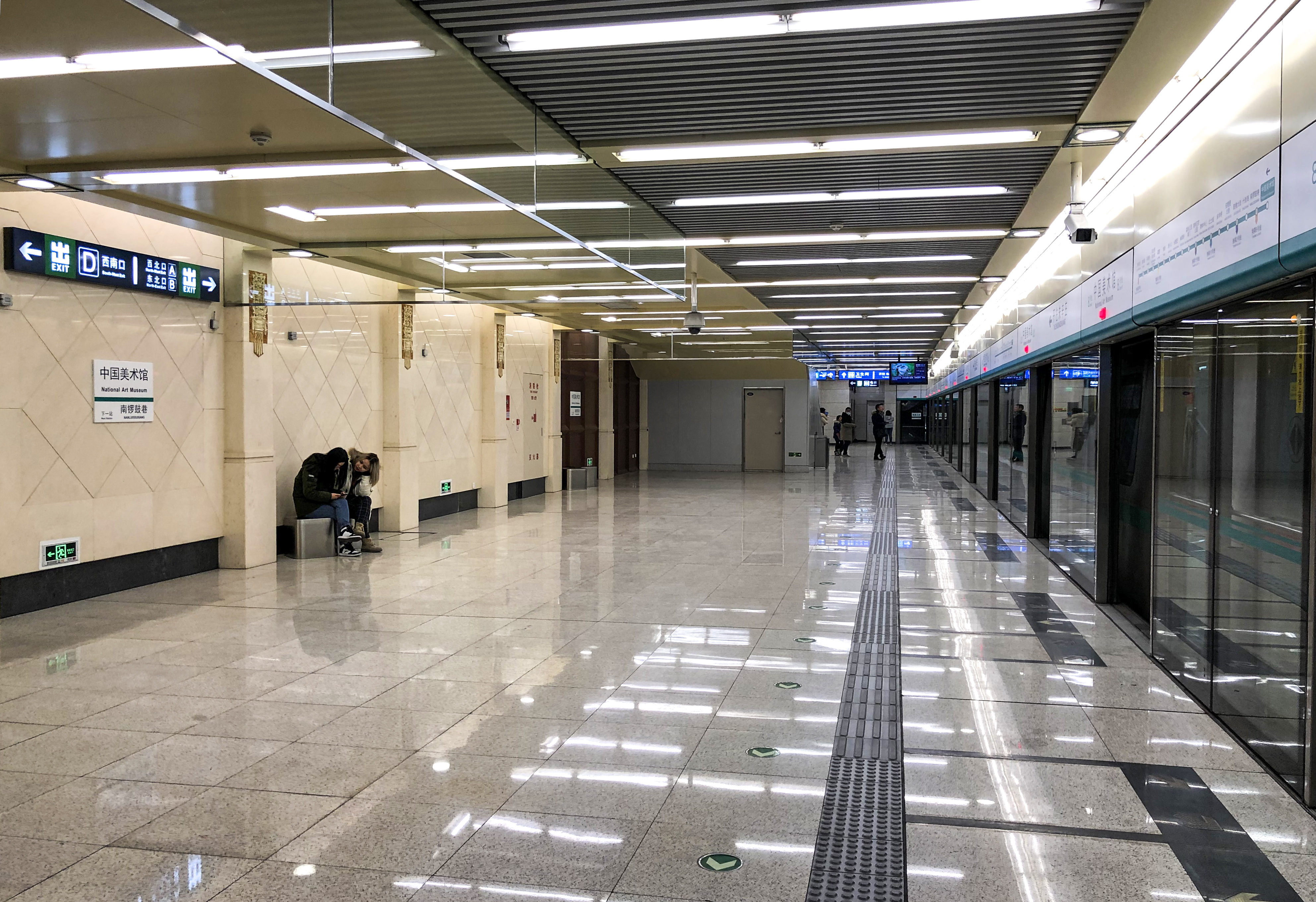 An offset of several carriages.